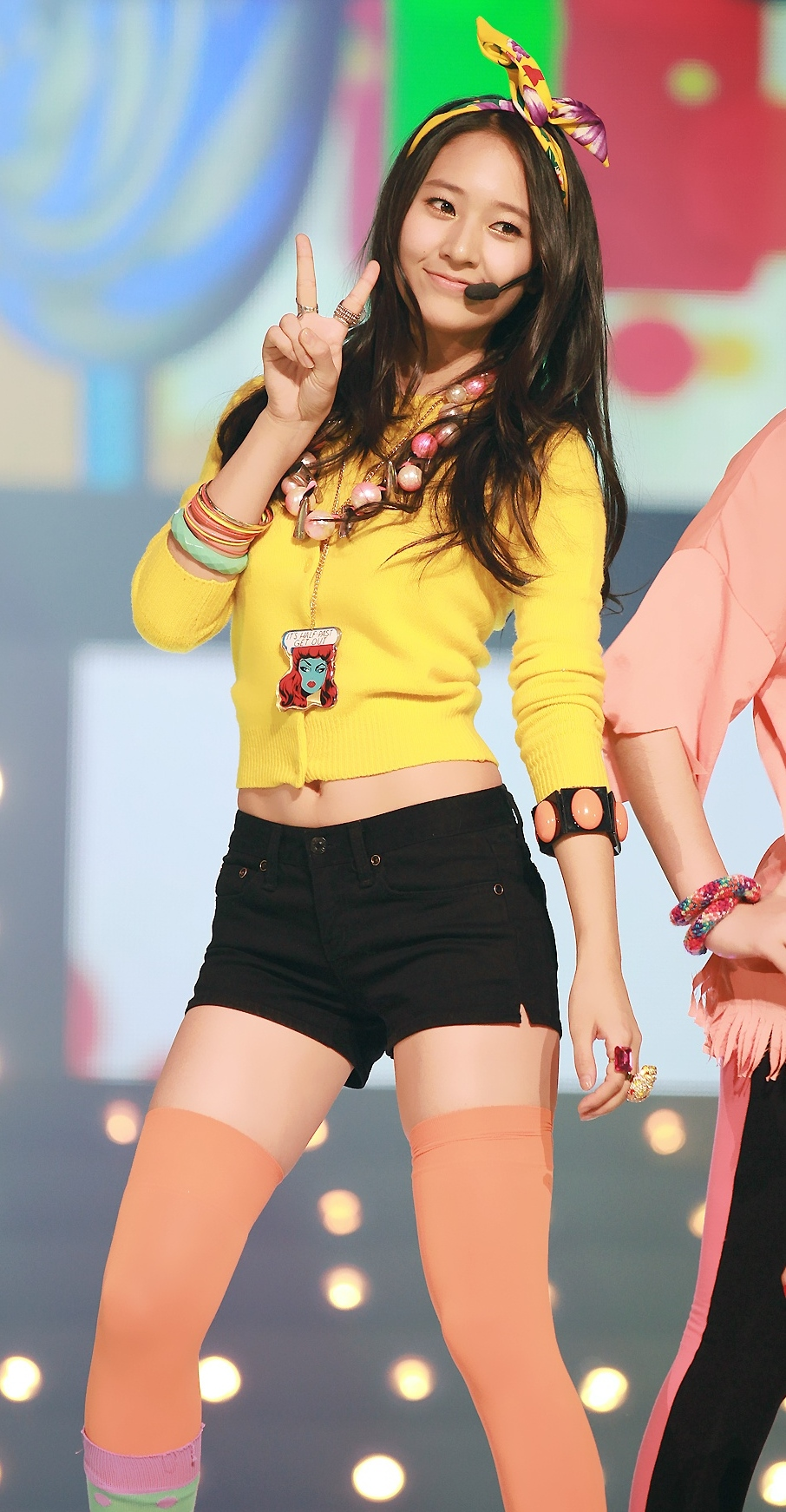 Krystal Jung at the 2010 KBS Gayo Daejun in December 30, 2010.